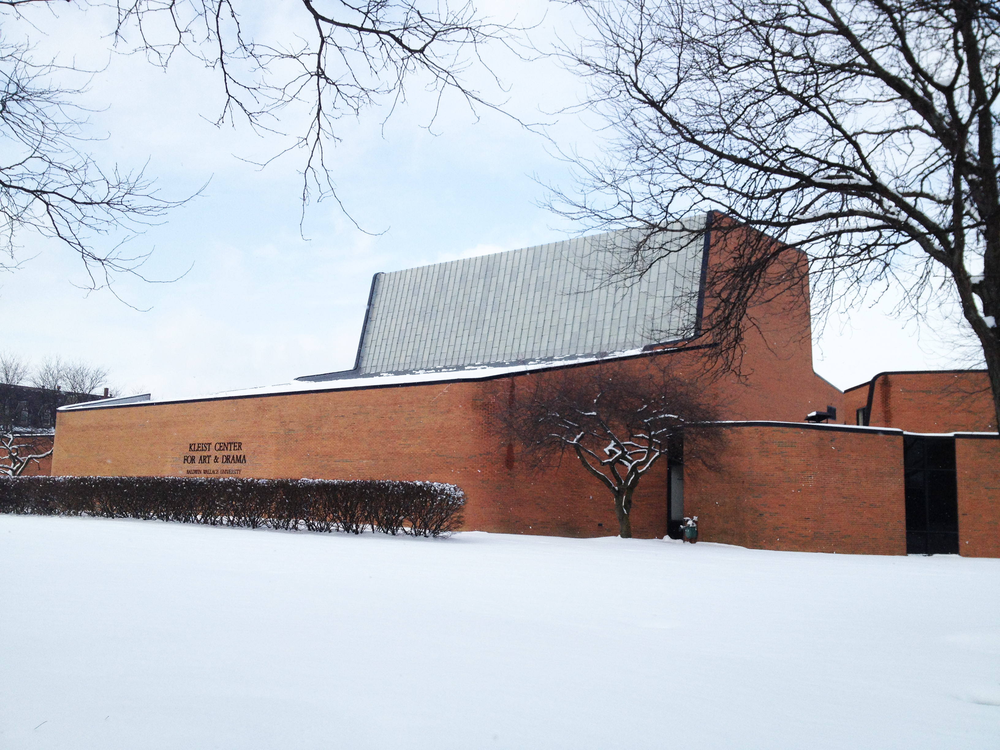 Kliest Center on Baldwin Wallace University North Campus